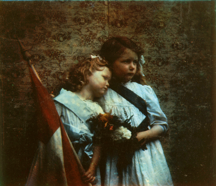 A photograph of two girls in Brighton, England, UK, holding the Union Flag.